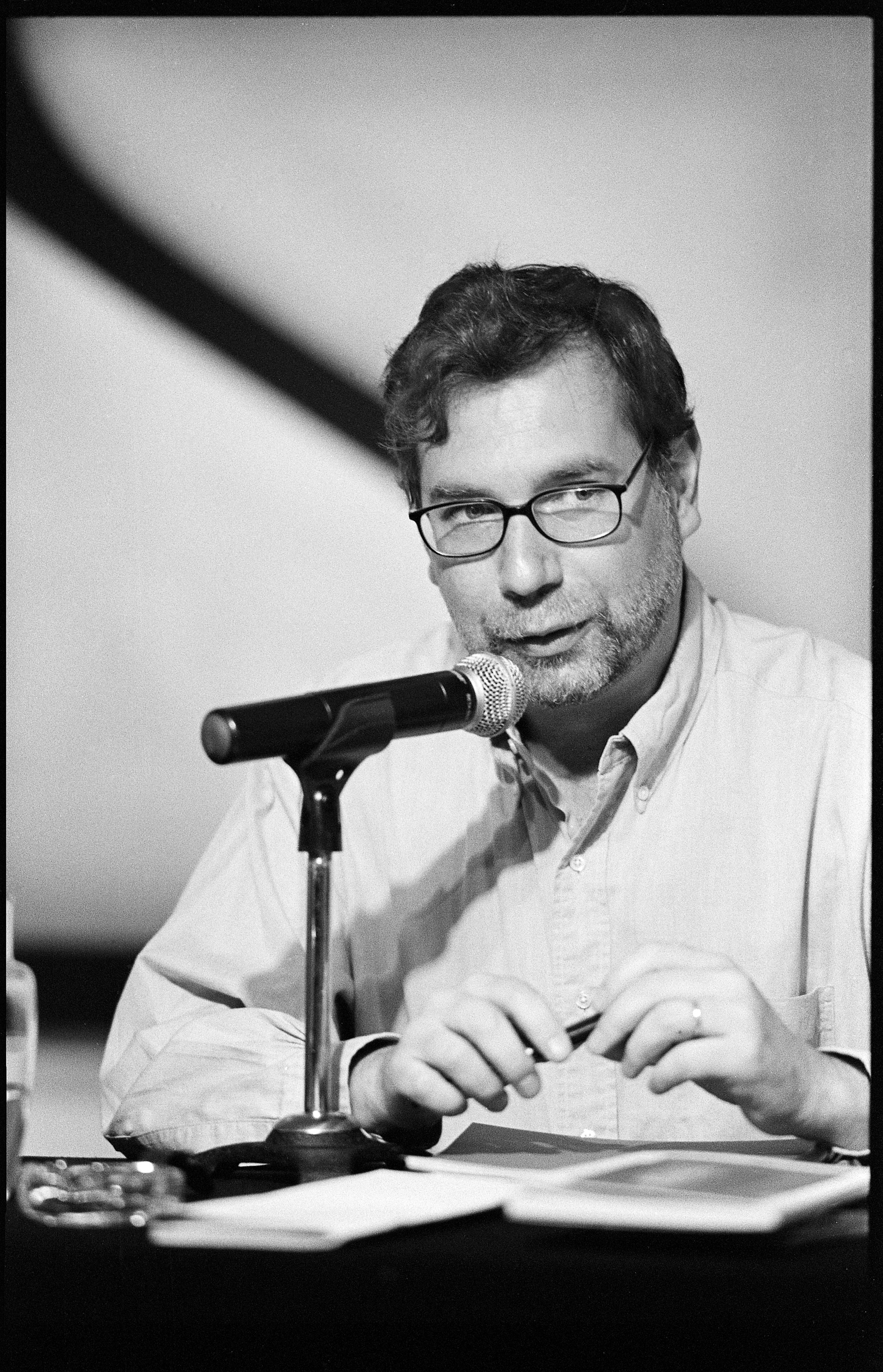 Colombian poet Ramon Cote Baraibar at the Casa del Poeta in Mexico City